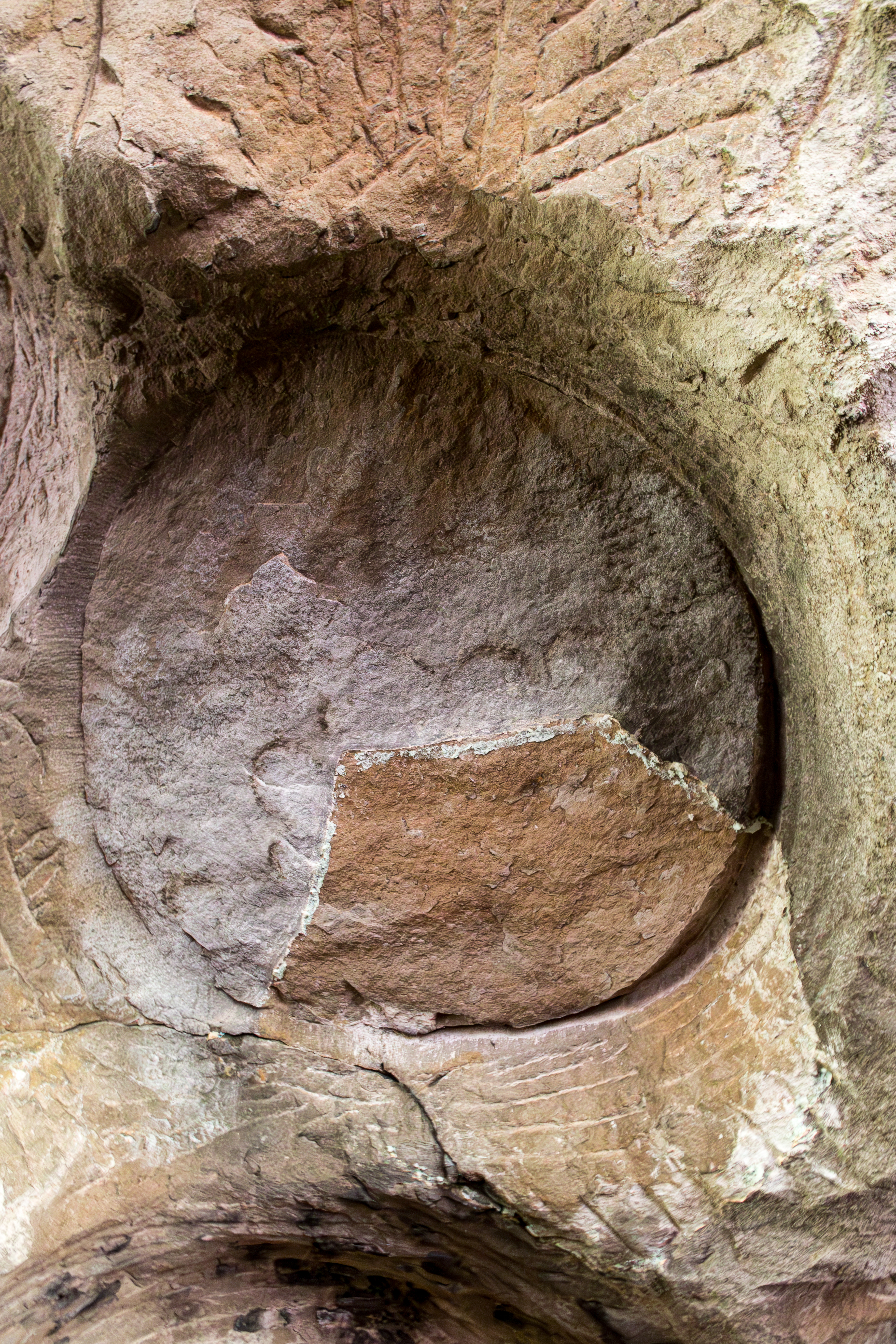 Hohllay (“hollow rock”) in Berdorf, Luxembourg